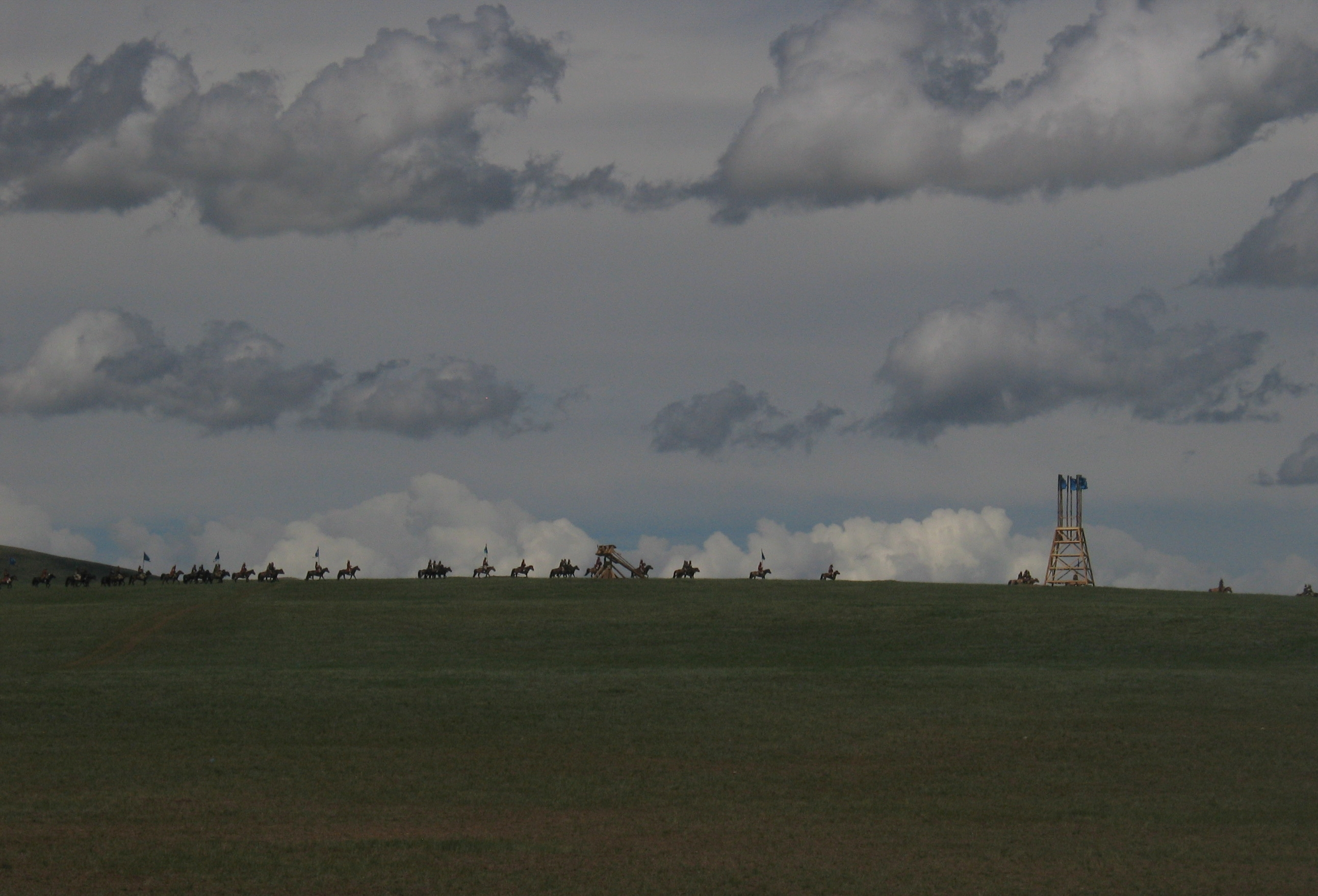 Reenactment of a Mongol military movement.